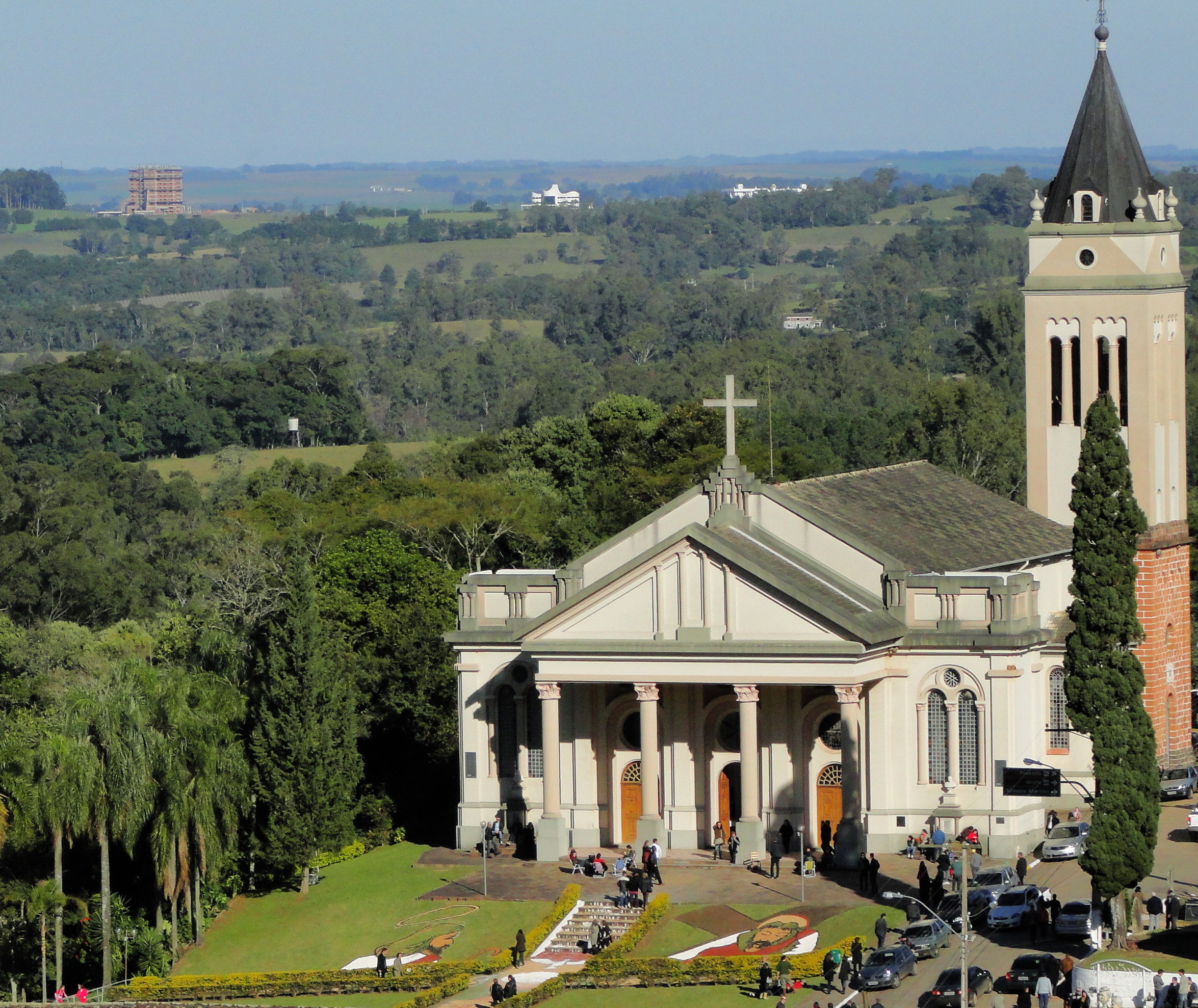 Corpus Christi church in Vale Veneto, Brazil.